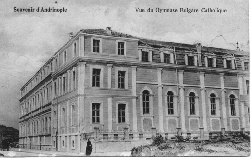 Bulgarian Catholic Gymnasium in Adrianople ca. 1906